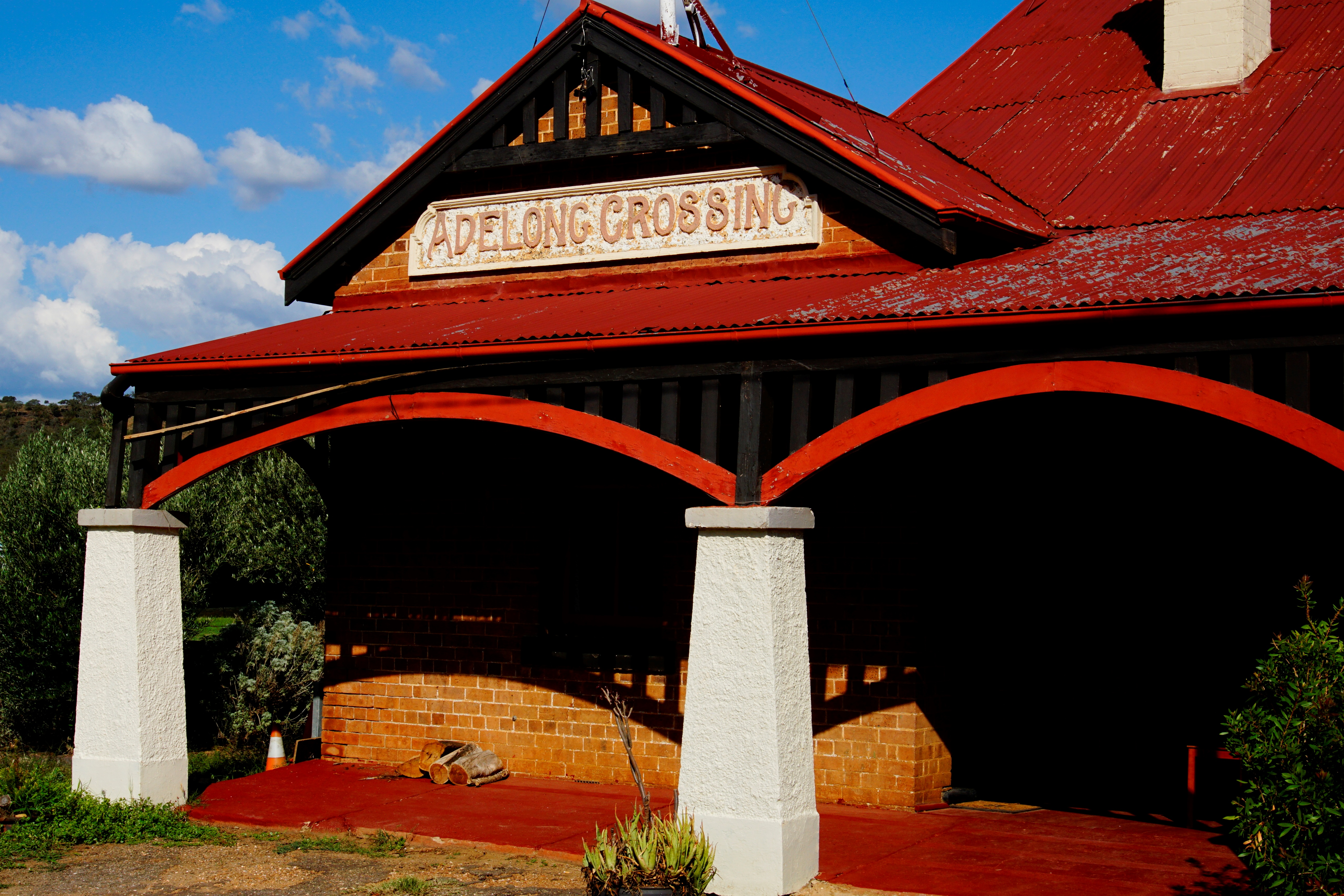 Part of a large roadside hotel with wide verandah. Sign carries earlier name of townshiL Adelong Crossing.